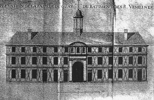 La Nouvelle Orléans, Ursuline Convent Building, 1733, drawing by François Broutin. Quay fascade (ie; river side) This is the older Ursuline Convent building, construction starting in 1727; it was dismantled in the 1740s with some material reused in construction of the current building.